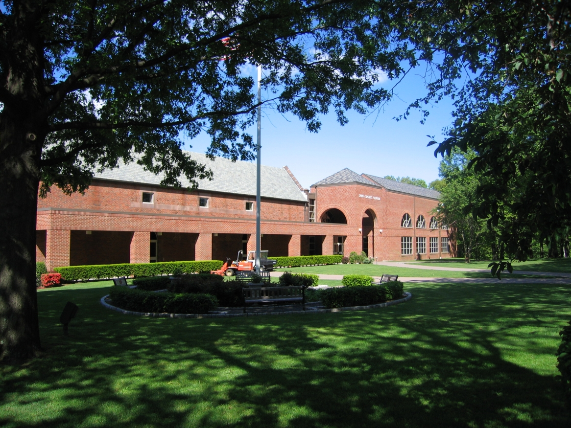 Spiro Sports center at Wagner College, New York City